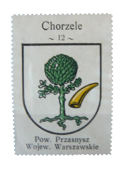 Drawing of coat of arms of town Chorzele from Kaffe Hag album